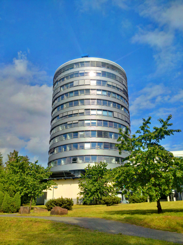 Administration building, University of Kaiserslautern, May 2015